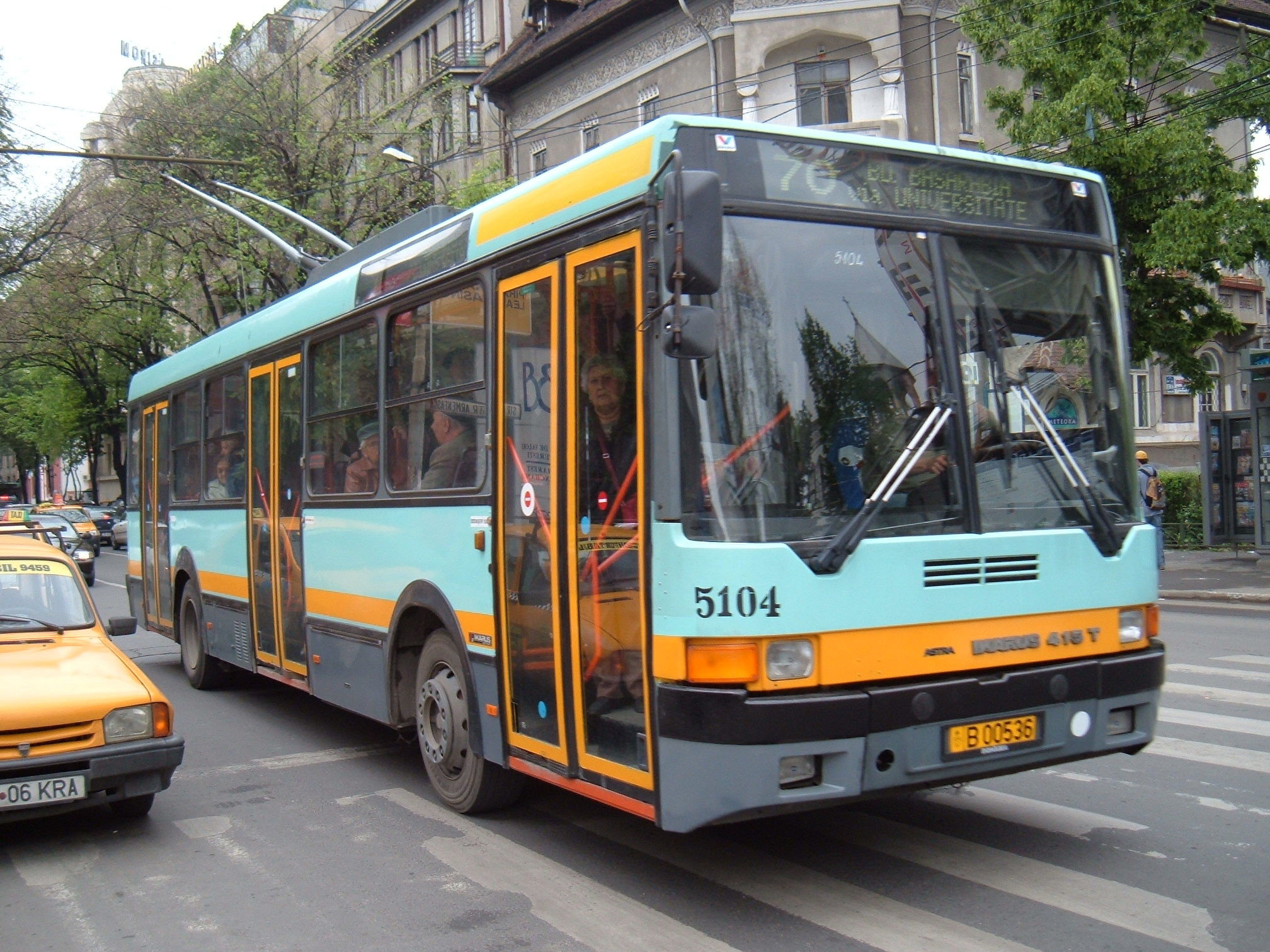 Public trolleybus in Bucharest, Romania (Ikarus 415.80 T type). Year built 1997. RATB București company.